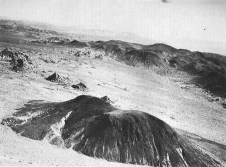 Oblique aerial photograph of Malapai Hill, in the Mojave Desert area of Joshua Tree National Park, California.